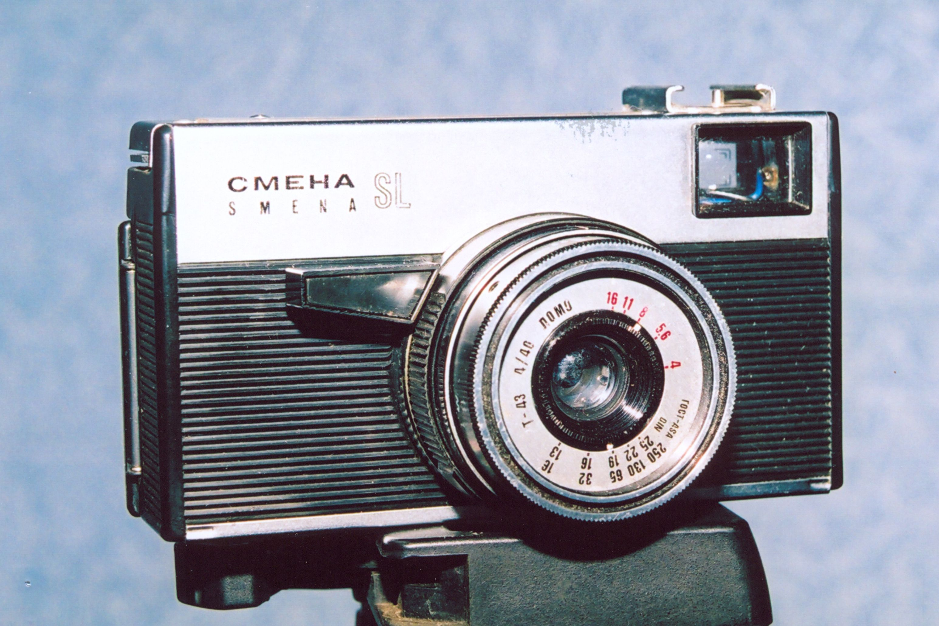 Фотоаппарат Смена-SL (Смена-Рапид)